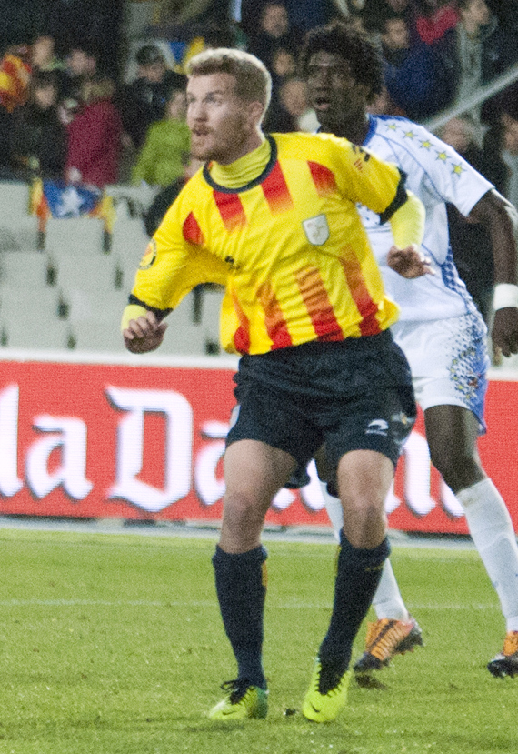 Spanish football player Oriol Rosell during friendly match Catalonia vs. Cape Verde